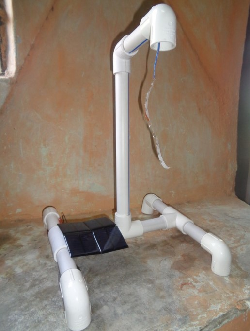 Solar table lamp